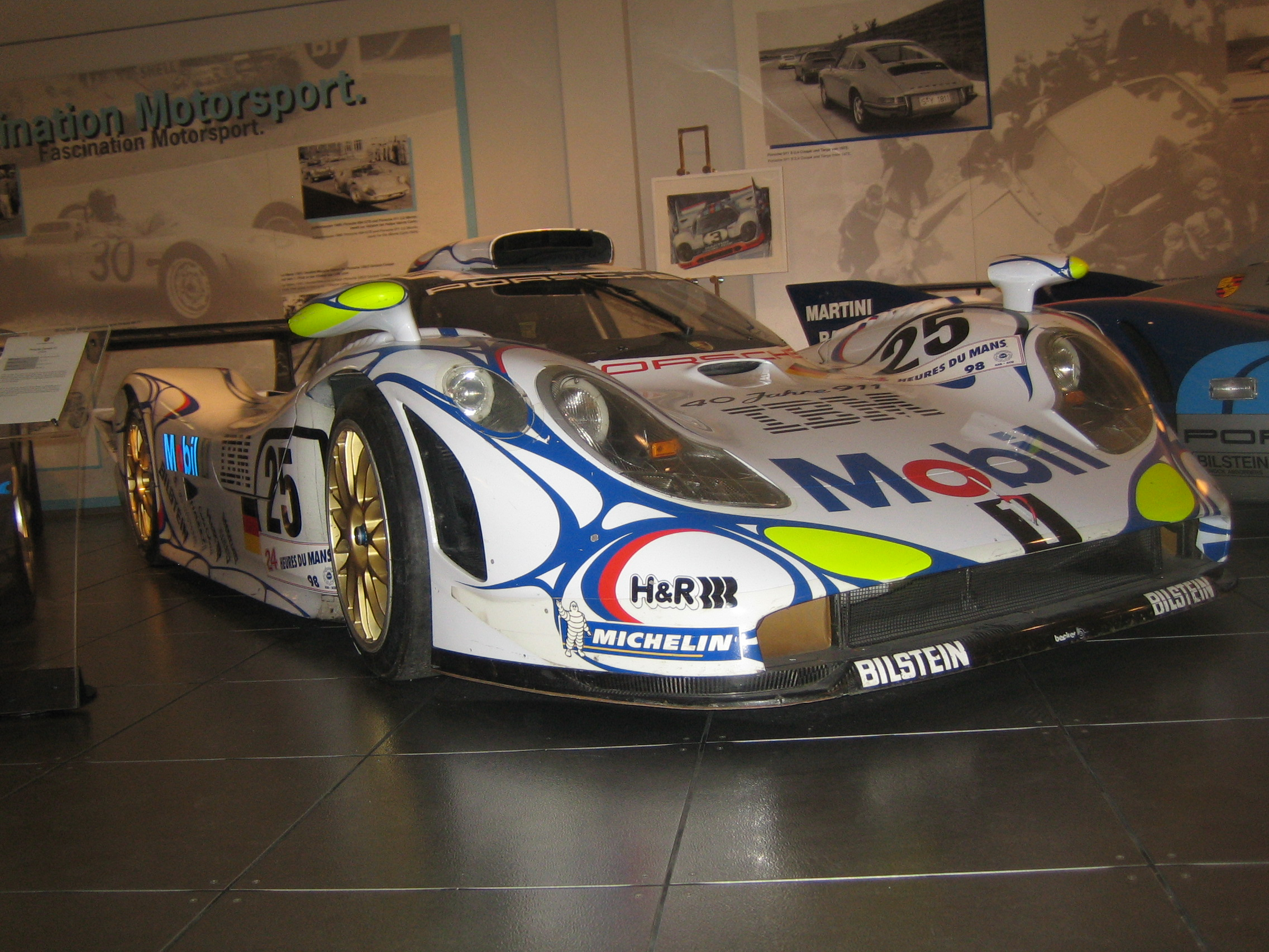 Porsche 911 GT1 '98.jpg Porsche Museum Native namePorsche-MuseumLocationStuttgartCoordinates48° 50′ 07″ N, 9° 09′ 06″ E Established1976 (old museum) 2009 (new museum)Web page control : Q328623 VIAF: 138511768 GND: 2087859-X SUDOC: 155641123